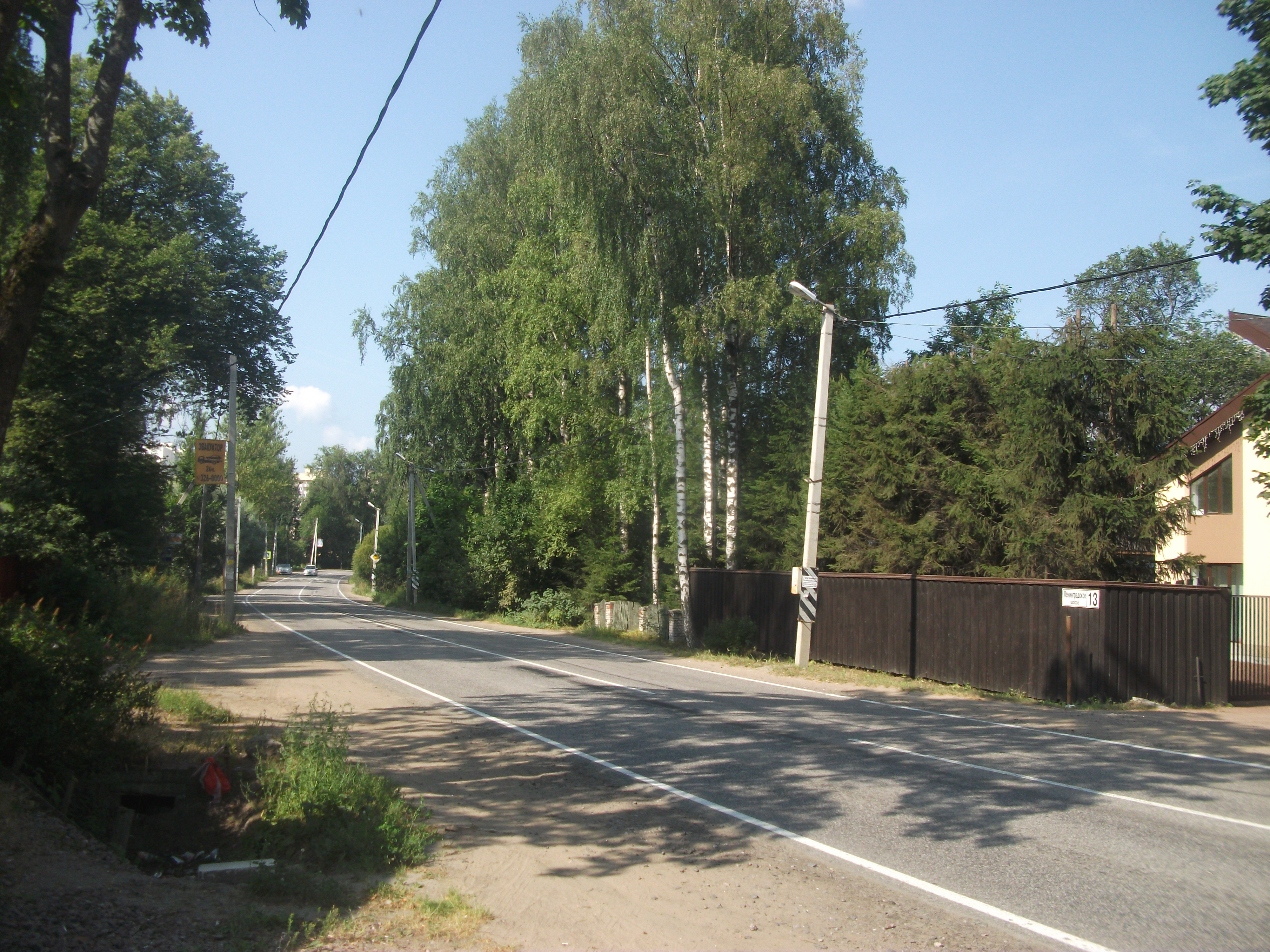 Ykki, Leningrad St.